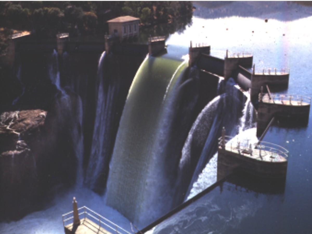 The old Melones Dam which was submerged by the New Melones Dam.